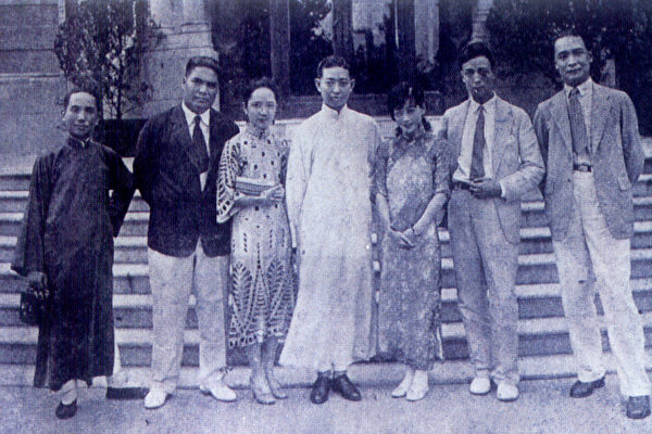 Key people of the United Photoplay Service, circa 1930: Lai Man-Wai, Lo Ming Yau, Lim Cho Cho, Mei Lanfang, Ruan Lingyu, Sun Yu (director), and Jeffrey Y.C. Huang